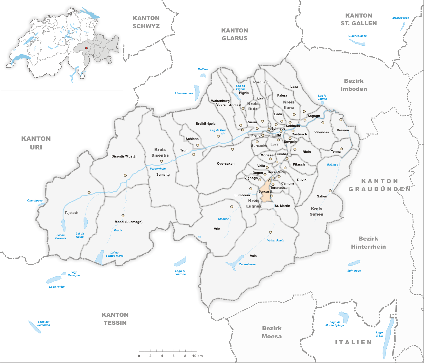 Municipality Surcasti Artist: Tschubby